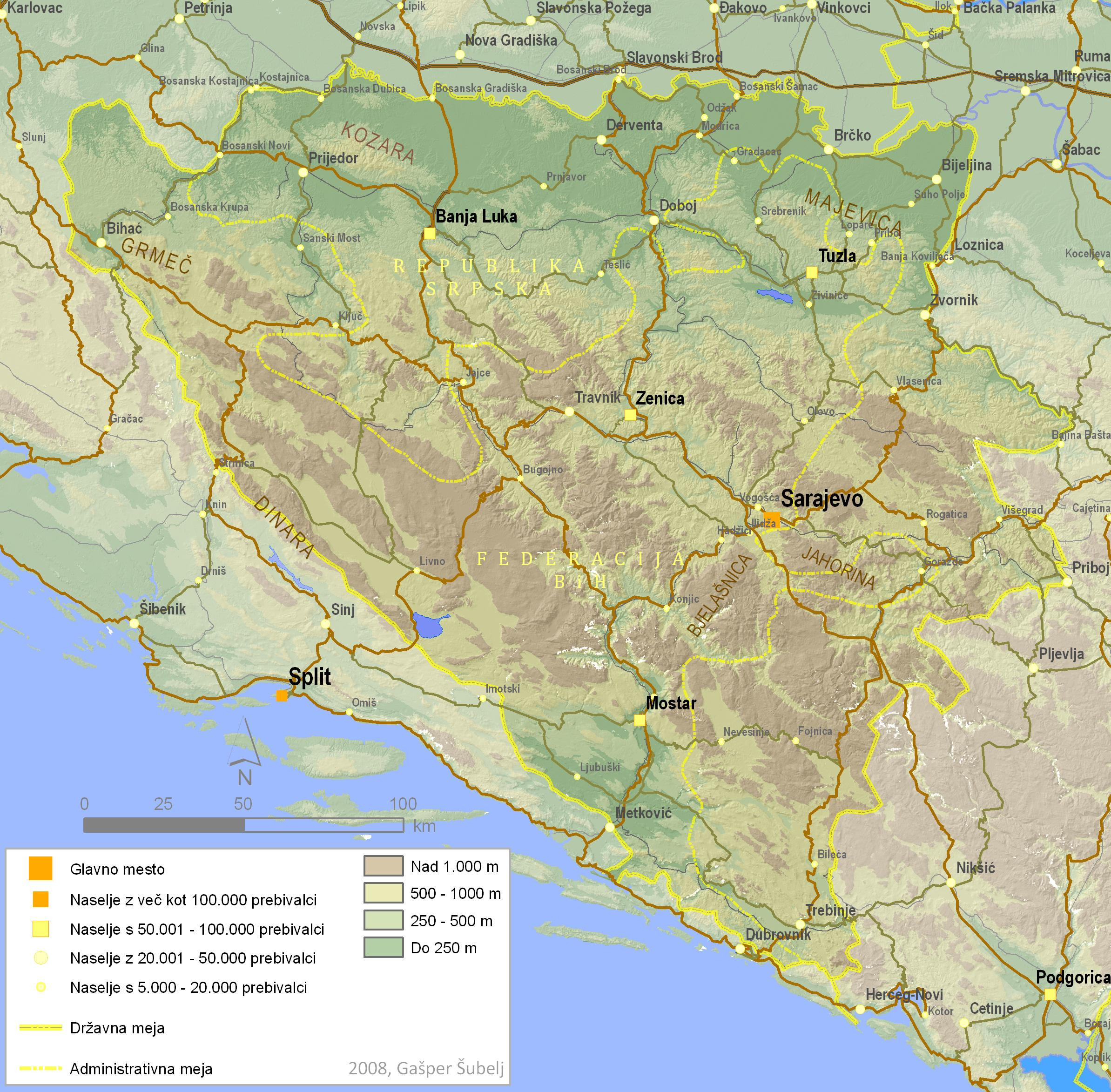 General map of Bosnia nad Herzegovina